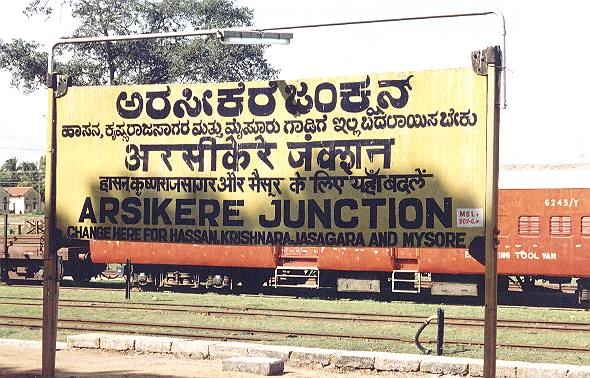 Arsikere railway junction